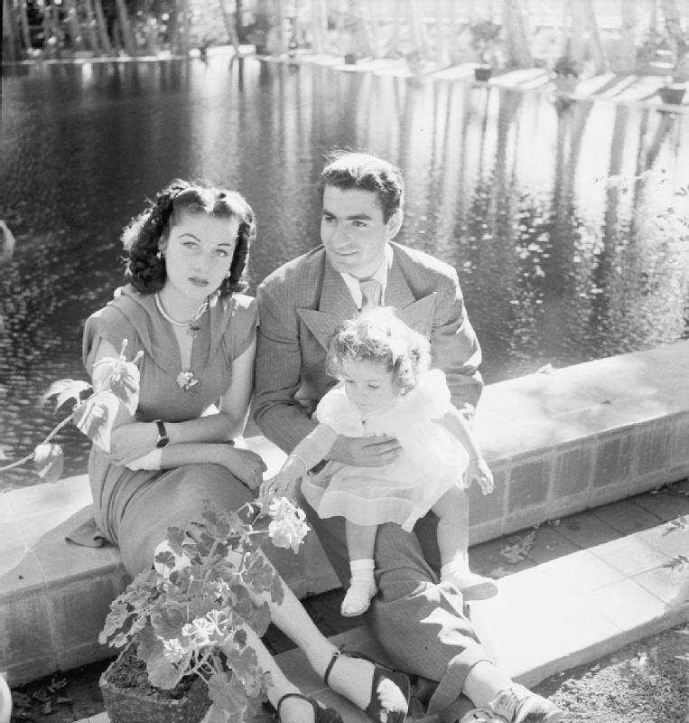 Cecil Beaton Photographs- Political and Military Personalities Political Personalities: Shah Mohammed Reza Pahlevi of Iran with his first wife, Queen Fawzieh, and their daughter, Princess Chahnaz seated by an ornamental pool in Teheran.